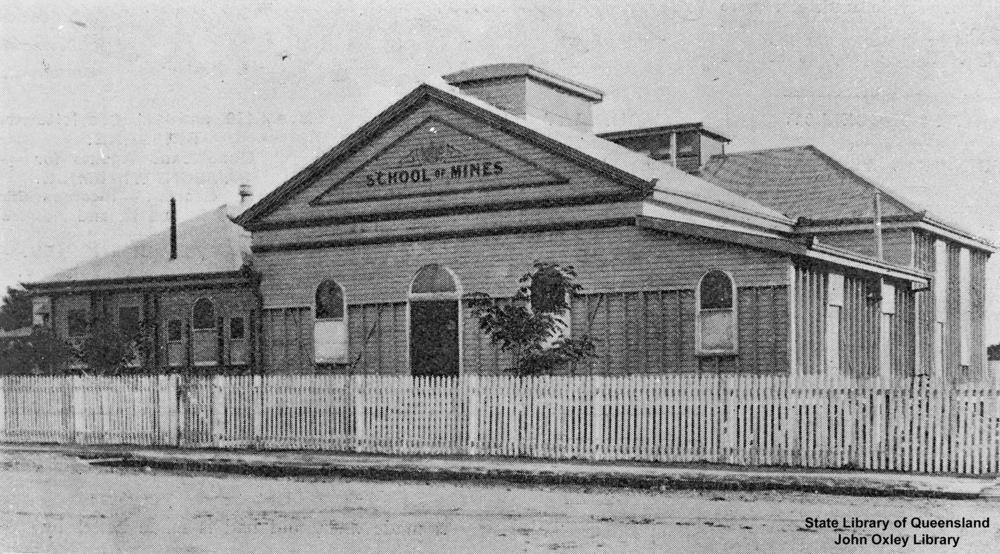 School of Mines building at Charters Towers, Queensland, 1905. School of Mines building at Charters Towers. The building is a timber construction with a corrugated iron roof. Arched windows have been used in the front of the building with a similar design above the entry door. A picket fence fronts the school. Caption: 'The School of Mines, Charters Towers.'.